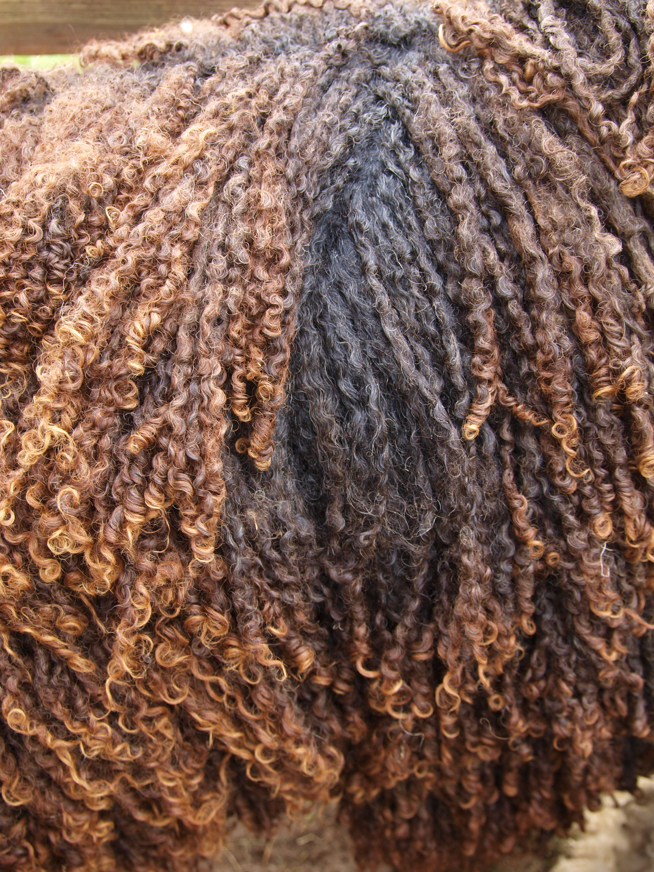 Wool of a black Wensleydale longwool sheep